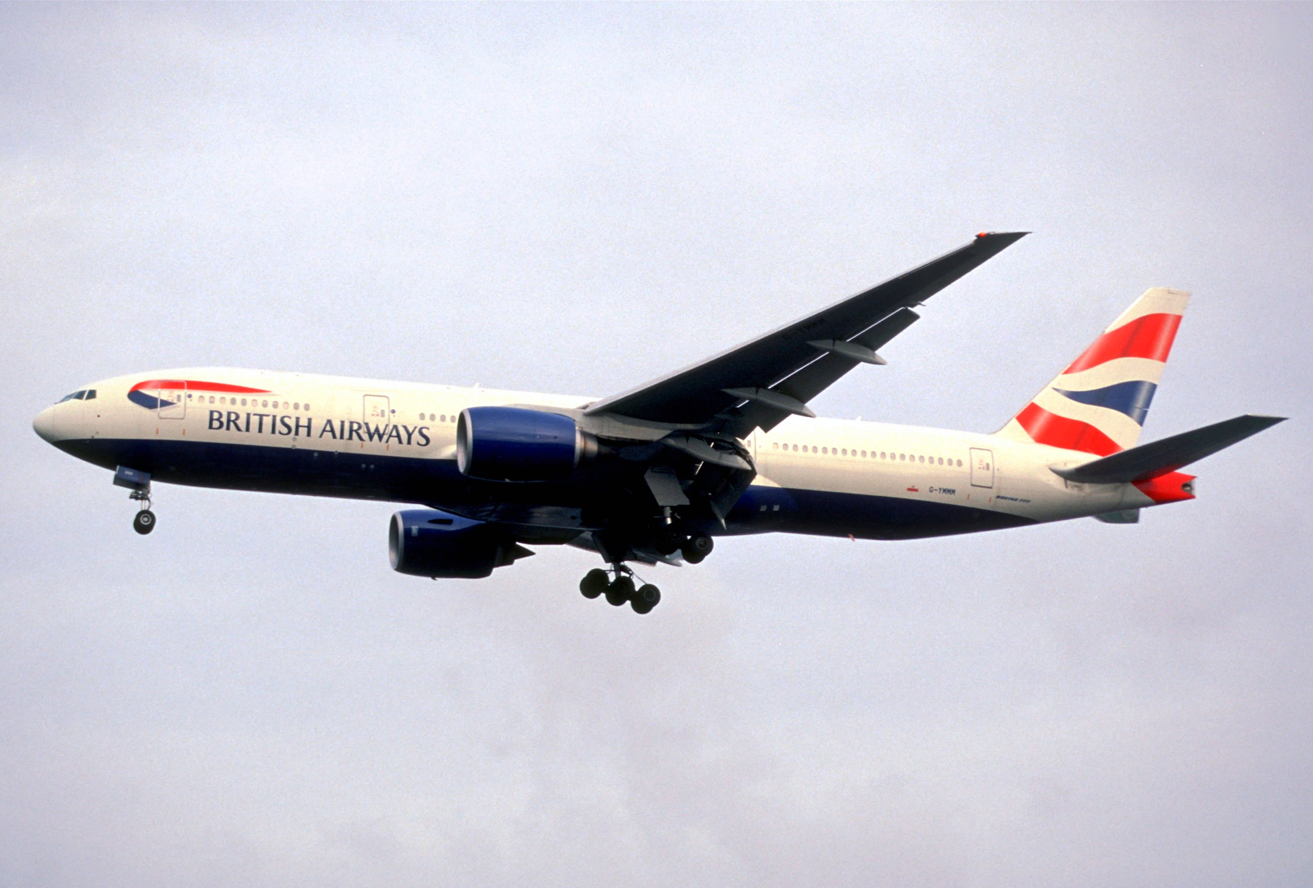 202cs - British Airways Boeing 777-236ER; G-YMMM@LHR;18.01.2003